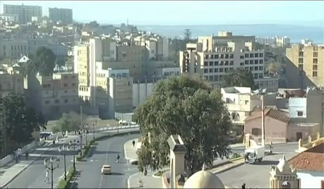 Mostaganem, view of the modern city - Algeria